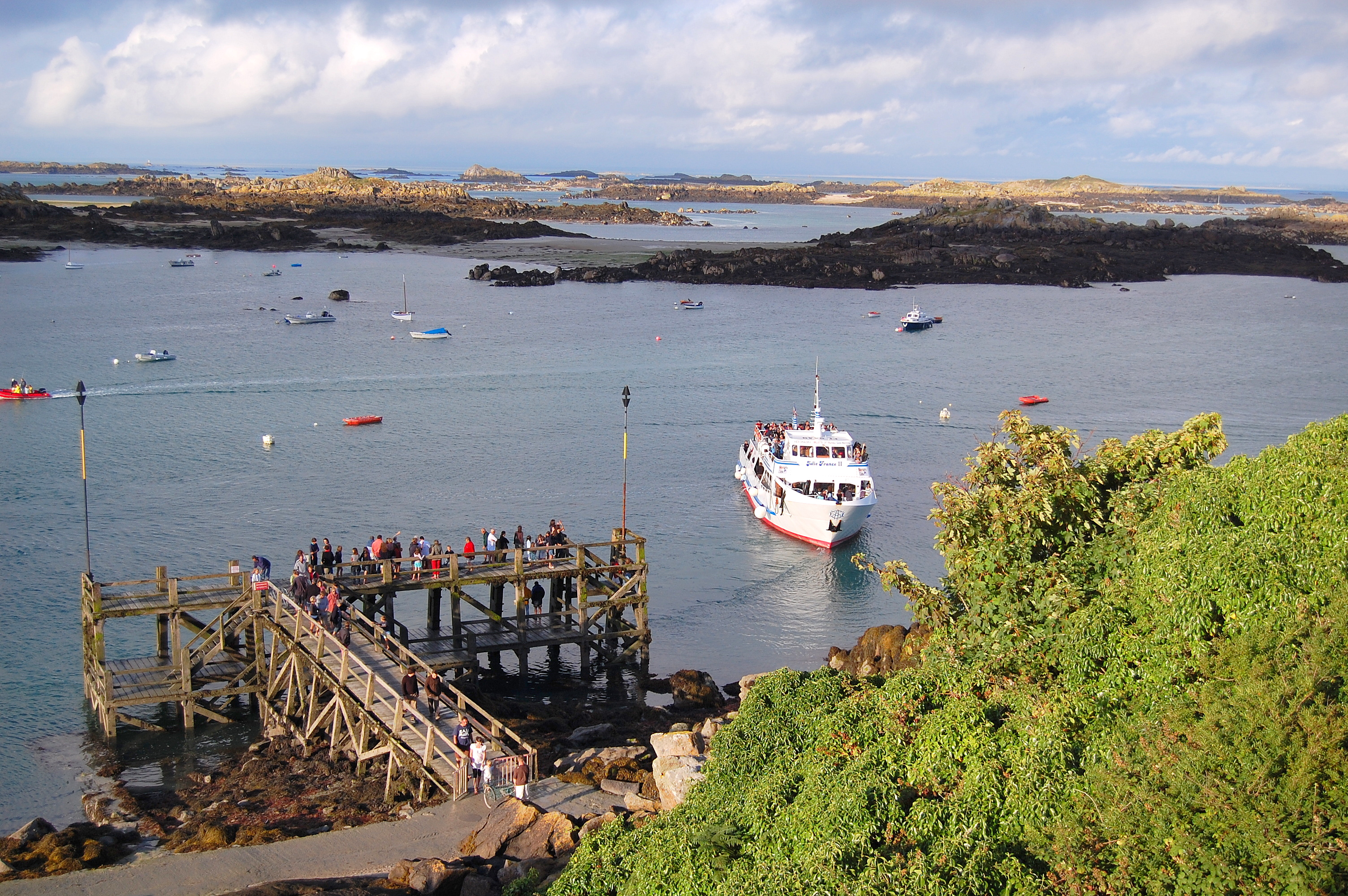 The ferry of Granville, Chausey Island, France